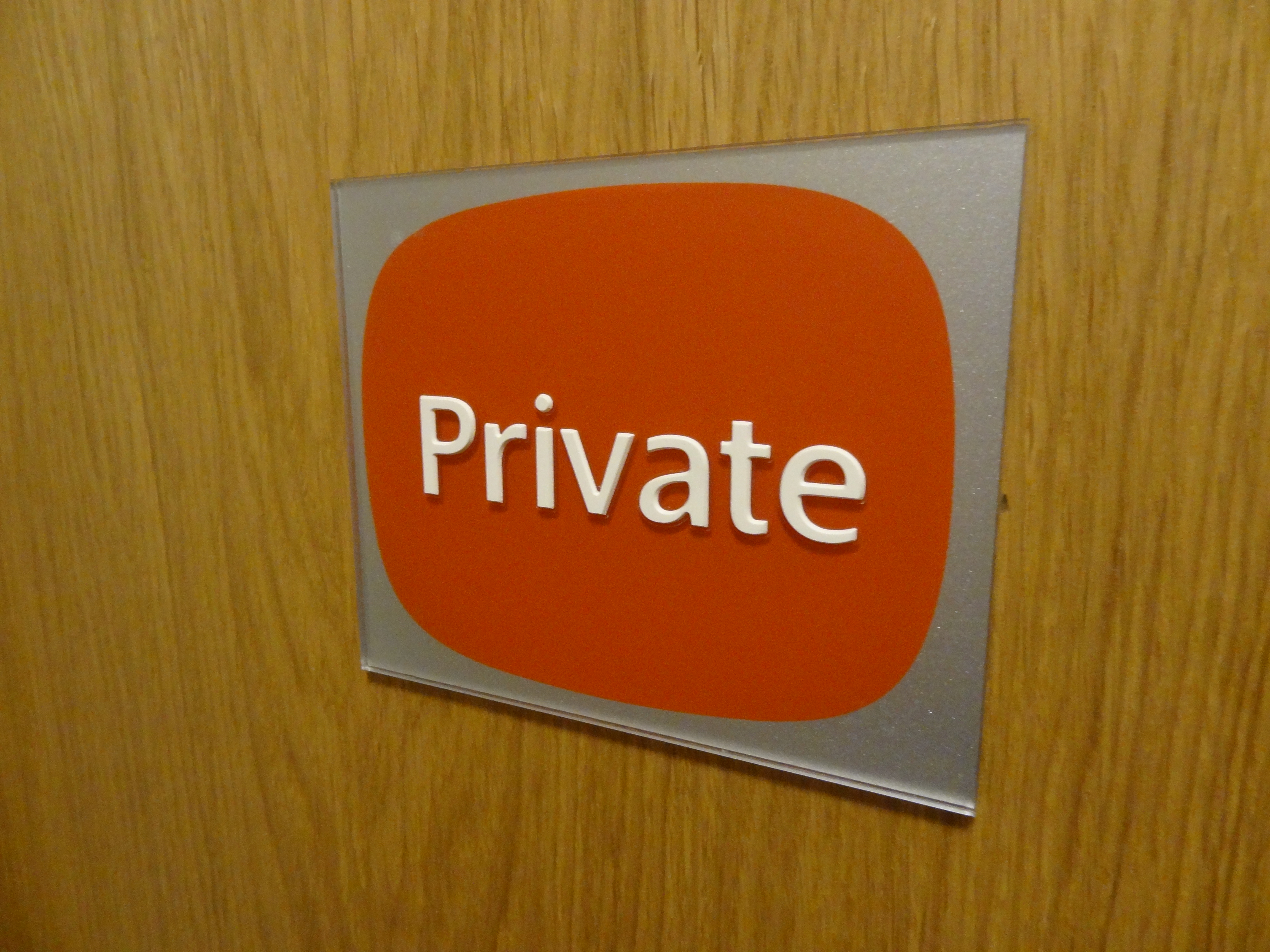 Door sign